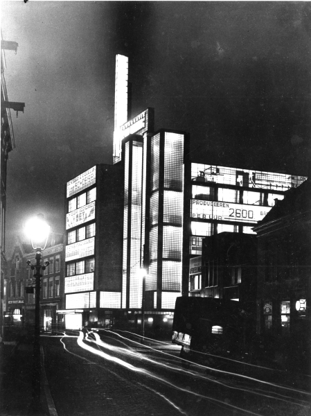 Building De Volharding, architect Jan Buijs, Date: 1928, The Hague, The Netherlands